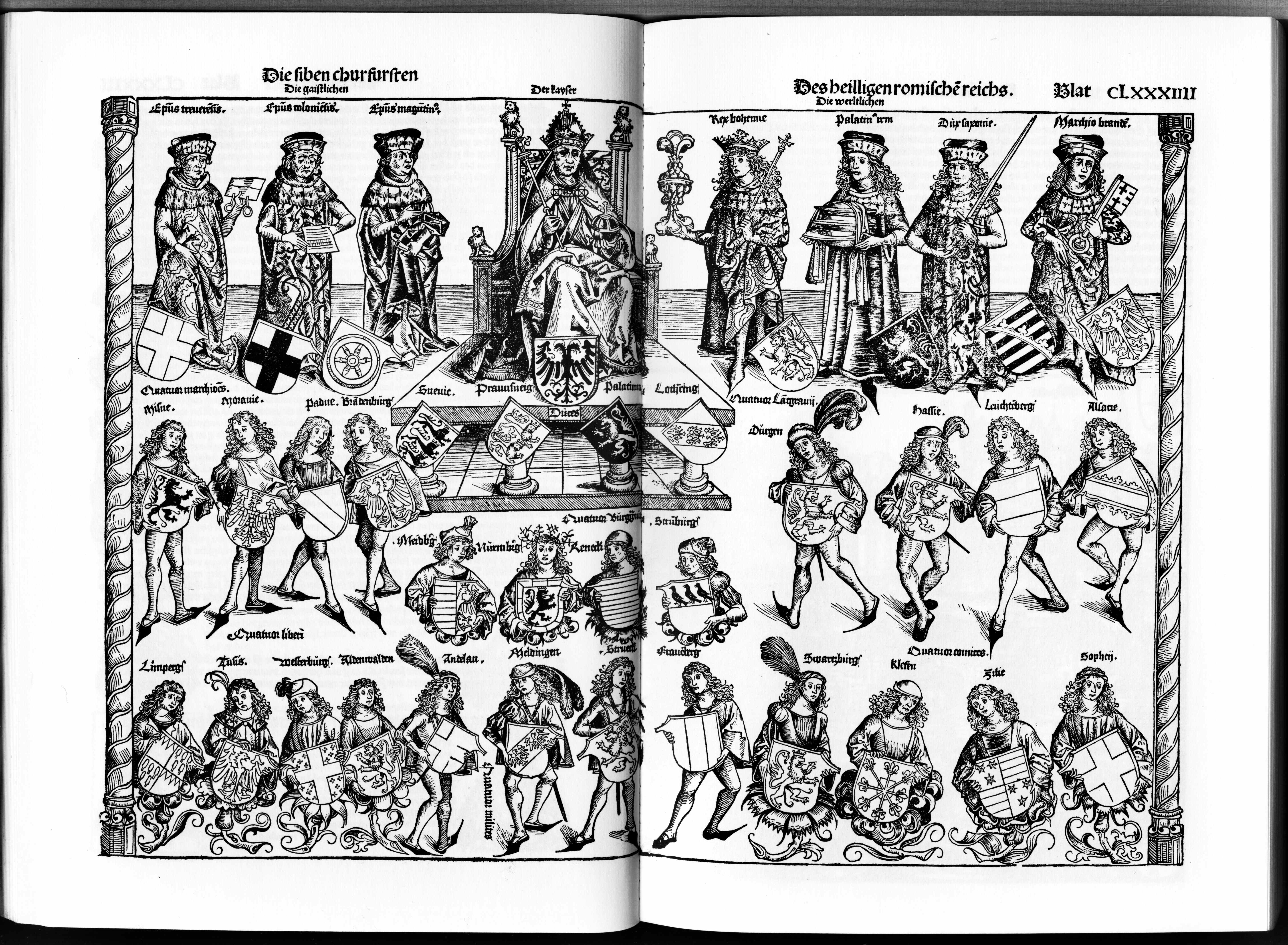 This is a scan of the historical document